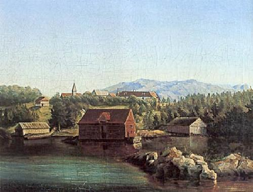 On this painting we can see the church of Svanøy up on the hill, close to Svanøy manor. It was a cruciform church, built about 1650. The church was located in the middle of the field where the churchyard is still located.